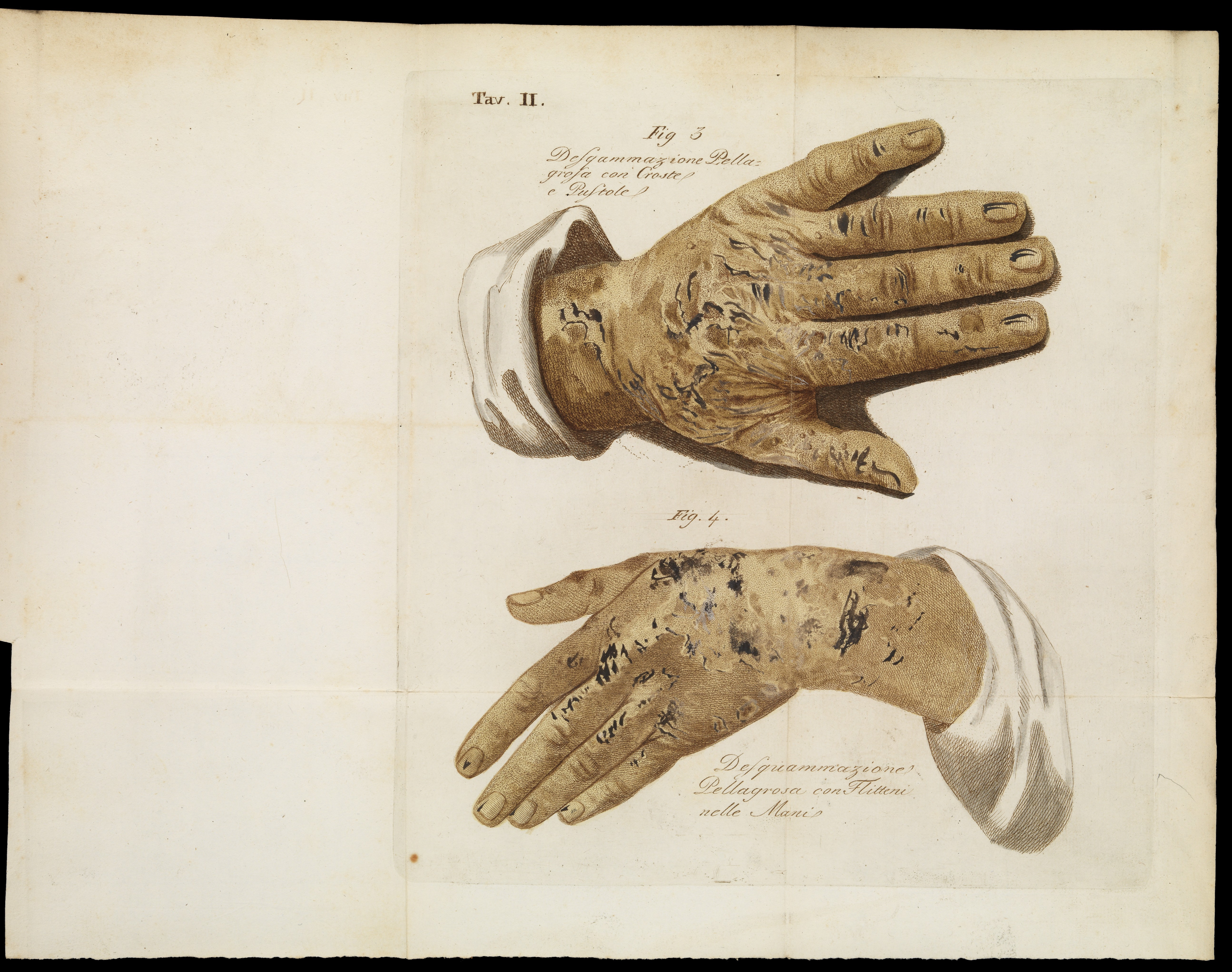 Two illustrations of Pellagra in hands Rare Books Keywords: Pellagra